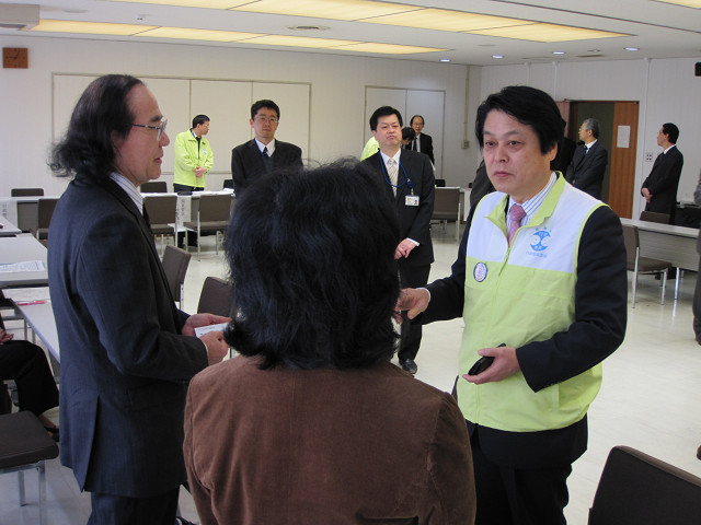 Akira Uchiyama, Parliamentary Secretary for Internal Affairs and Communications, inspected the Special Administrative Counseling Office in Matsudo City, Chiba Prefecture on April 20, 2011.(For terms of use, see 総務省｜当省ホームページについて.)